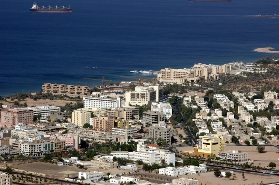 Aqaba City